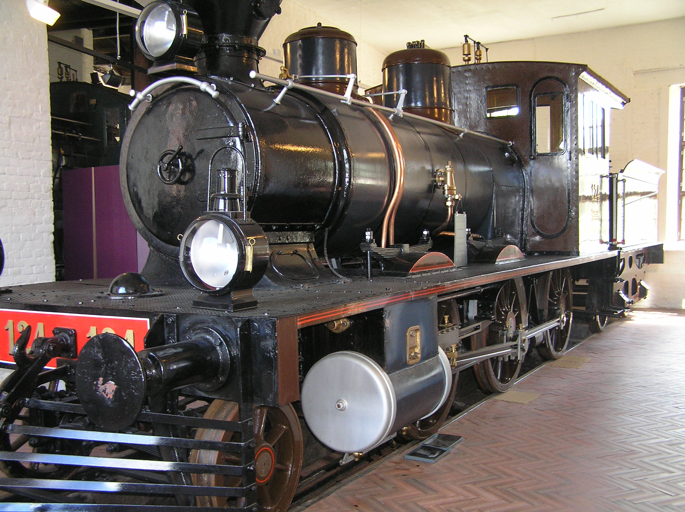 Locomotive at the Finnish Railway Museum Societe Suisse No 405